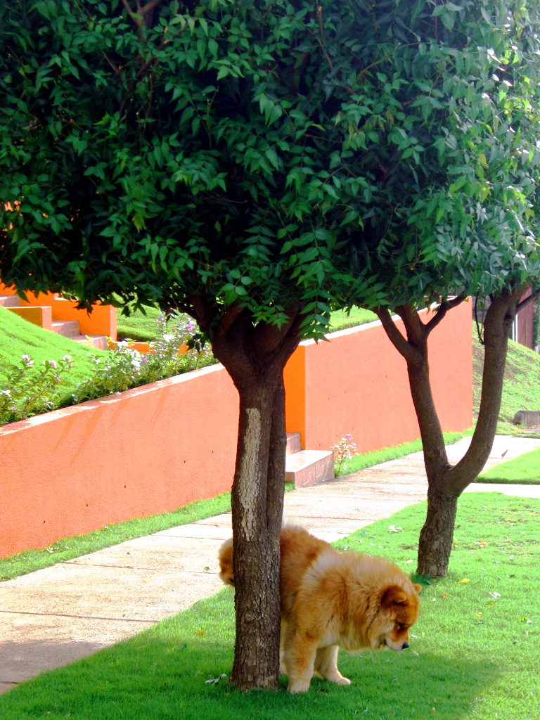 My dog is simply amazing... hahaha i saw he was peeing and he looked so cute =)